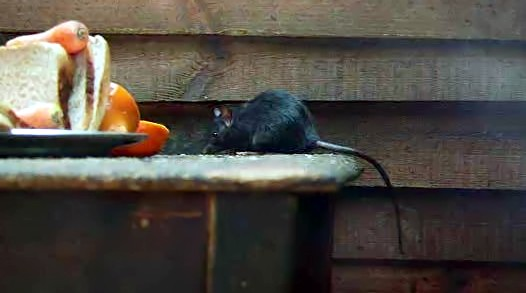 Black rat at London Zoo.